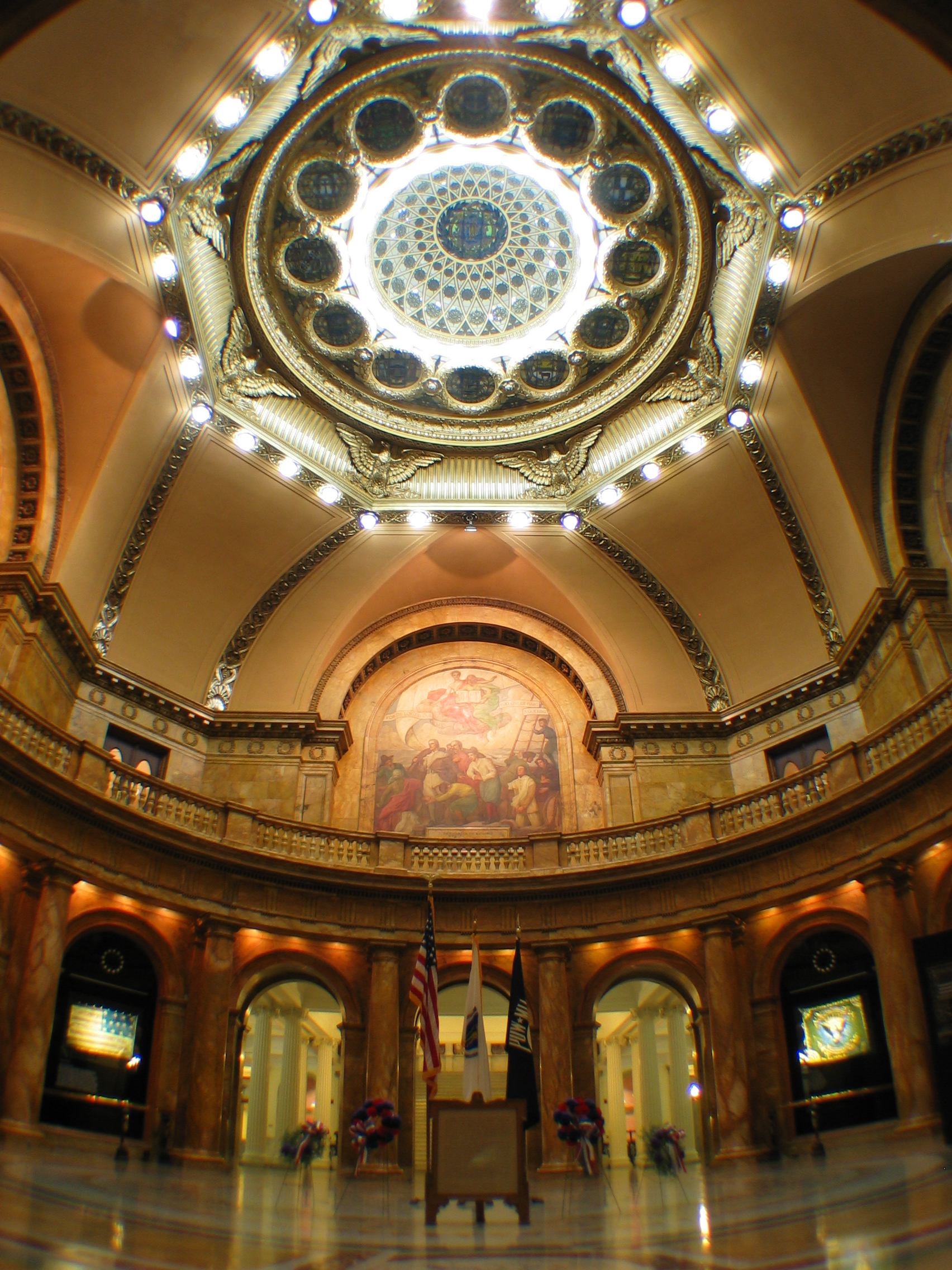 Massatchusetts State House